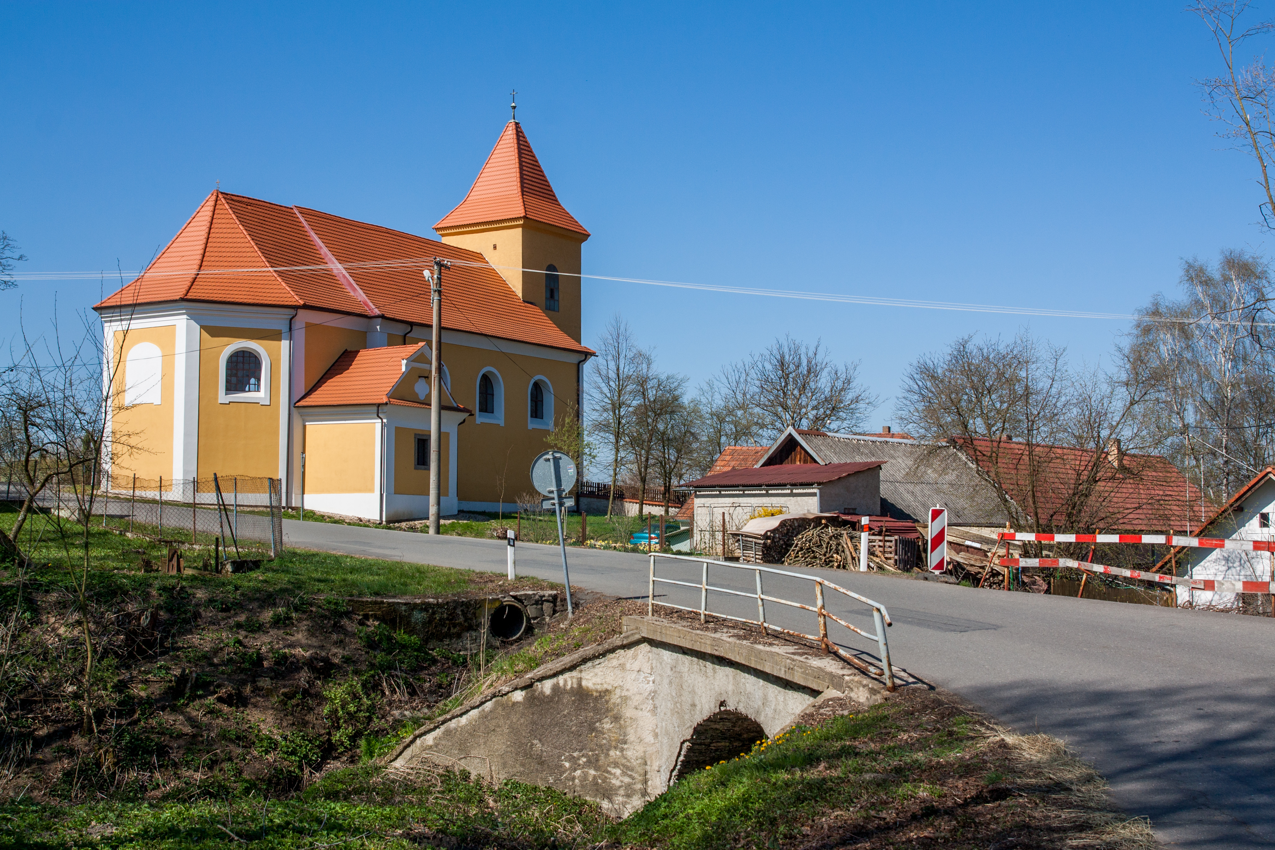 Bridge in municipality Janov, Tábor District, South Bohemian Region, Czechia